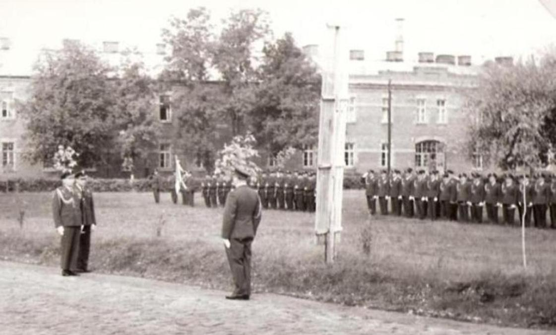 Uroczystość wojskowa w 64.LPSz Meldunek składa d-ca mjr pil. Leszek Jaworski, obok szef sztabu,przyjmuje komendant OSL-4 Dęblin ppłk pil. Józef Kowalski, 1963